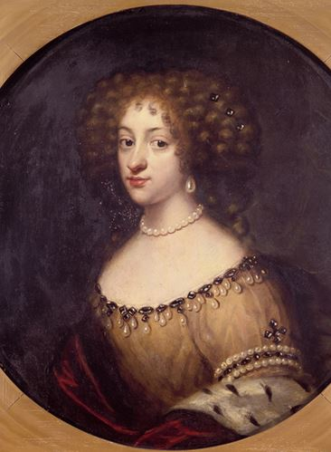 Princess Princess Anna Sophie of Denmark (1647-1717), Electress of Saxony